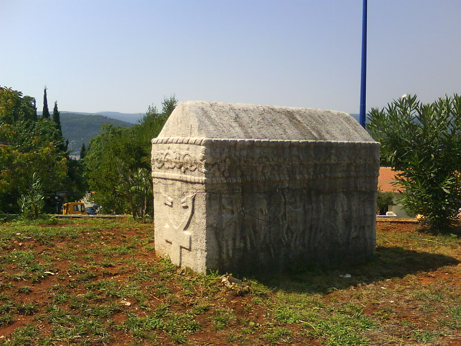 City of Neum